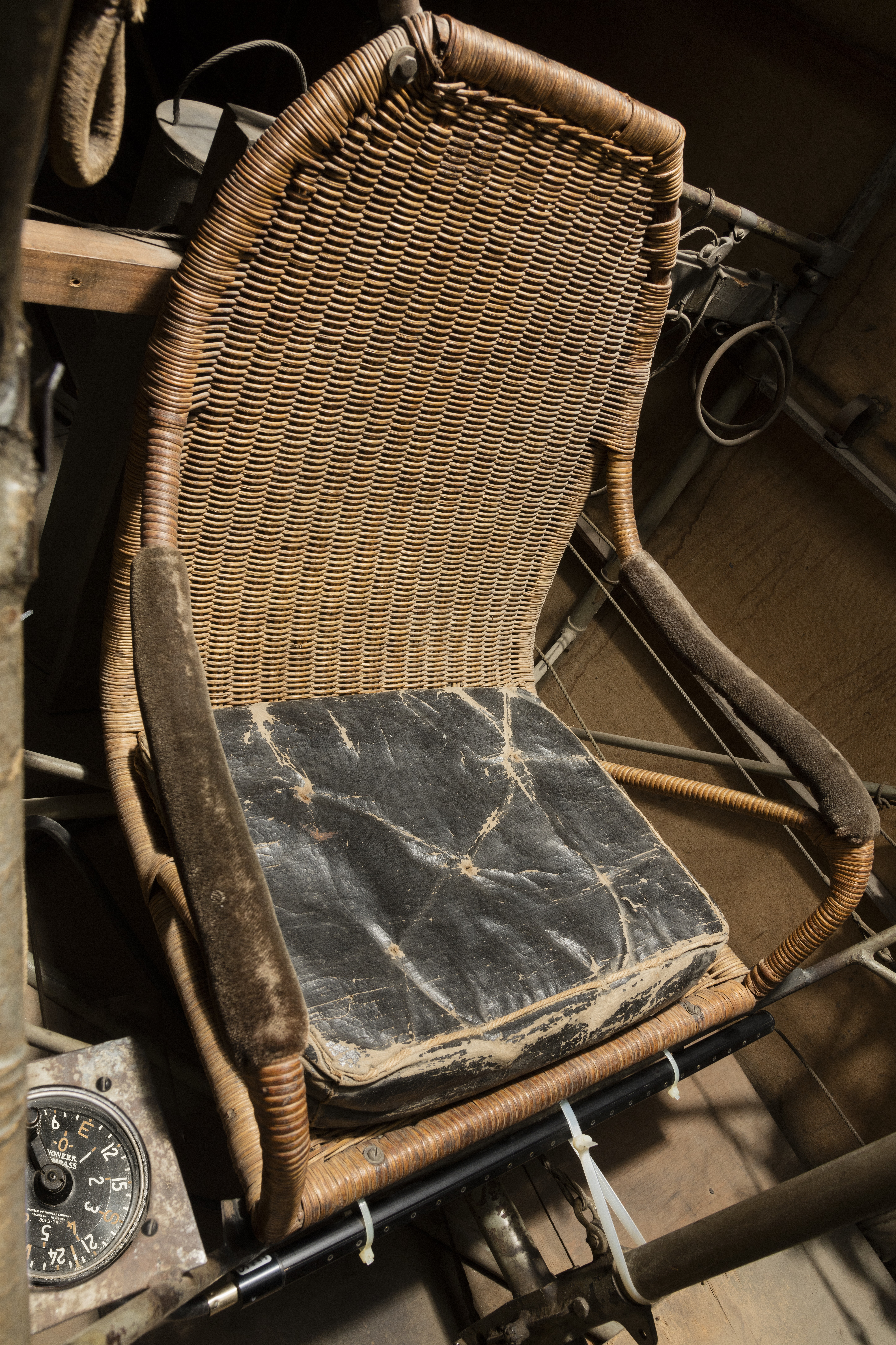 Detail views of the Ryan NYP "Spirit of St. Louis" (A19280021000) made during conservation work in Gallery 100, Smithsonian National Air and Space Museum, Washington, D.C., July 22, 2015. Pilot seat. Photos by Eric Long. [_T8A5379]